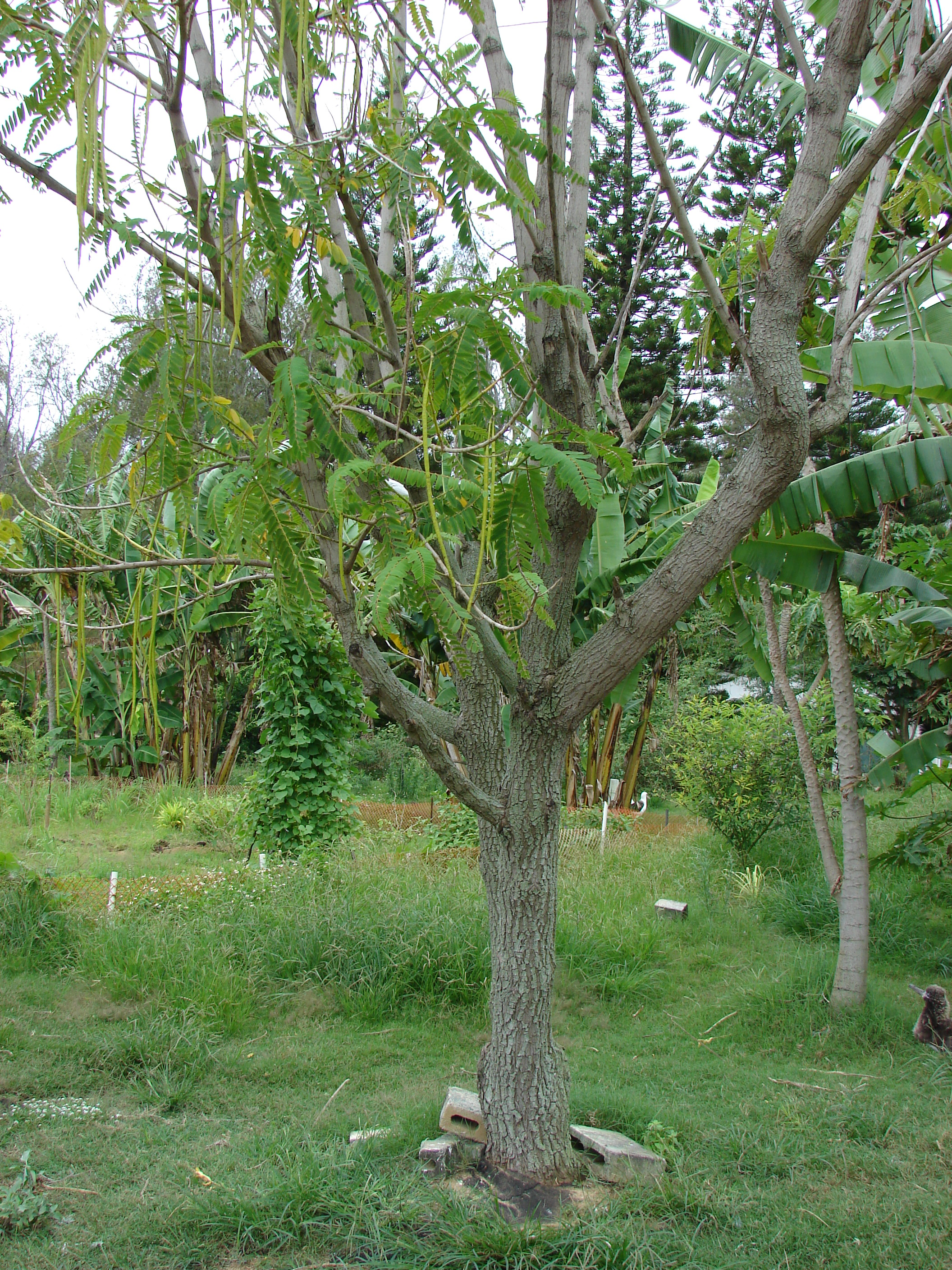 Sesbania grandiflora (habit). Location: Midway Atoll, Community Garden Sand Island